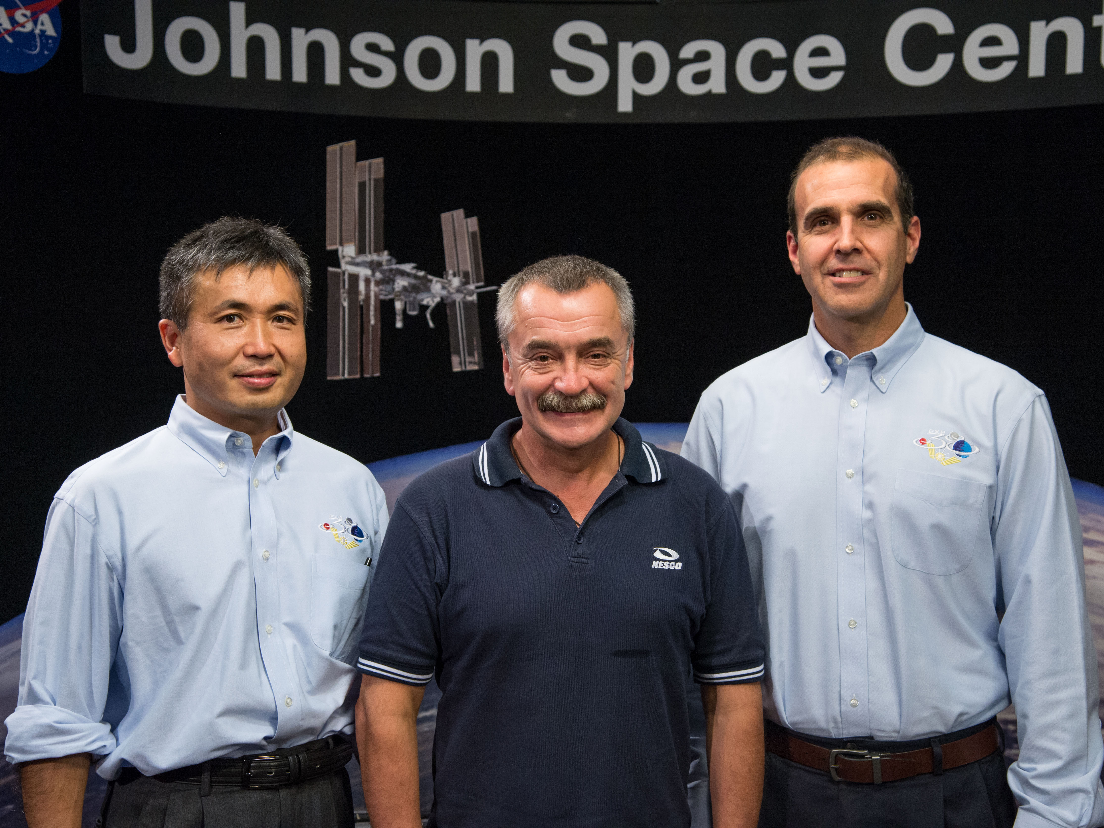 Japan Aerospace Exploration Agency (JAXA) astronaut Koichi Wakata (left), Expedition 38 flight engineer and Expedition 39 commander; along with Russian cosmonaut Mikhail Tyurin (center) and NASA astronaut Rick Mastracchio, both Expedition 38/39 flight engineers, pose for a portrait following an Expedition 38/39 preflight press conference at NASA's Johnson Space Center.